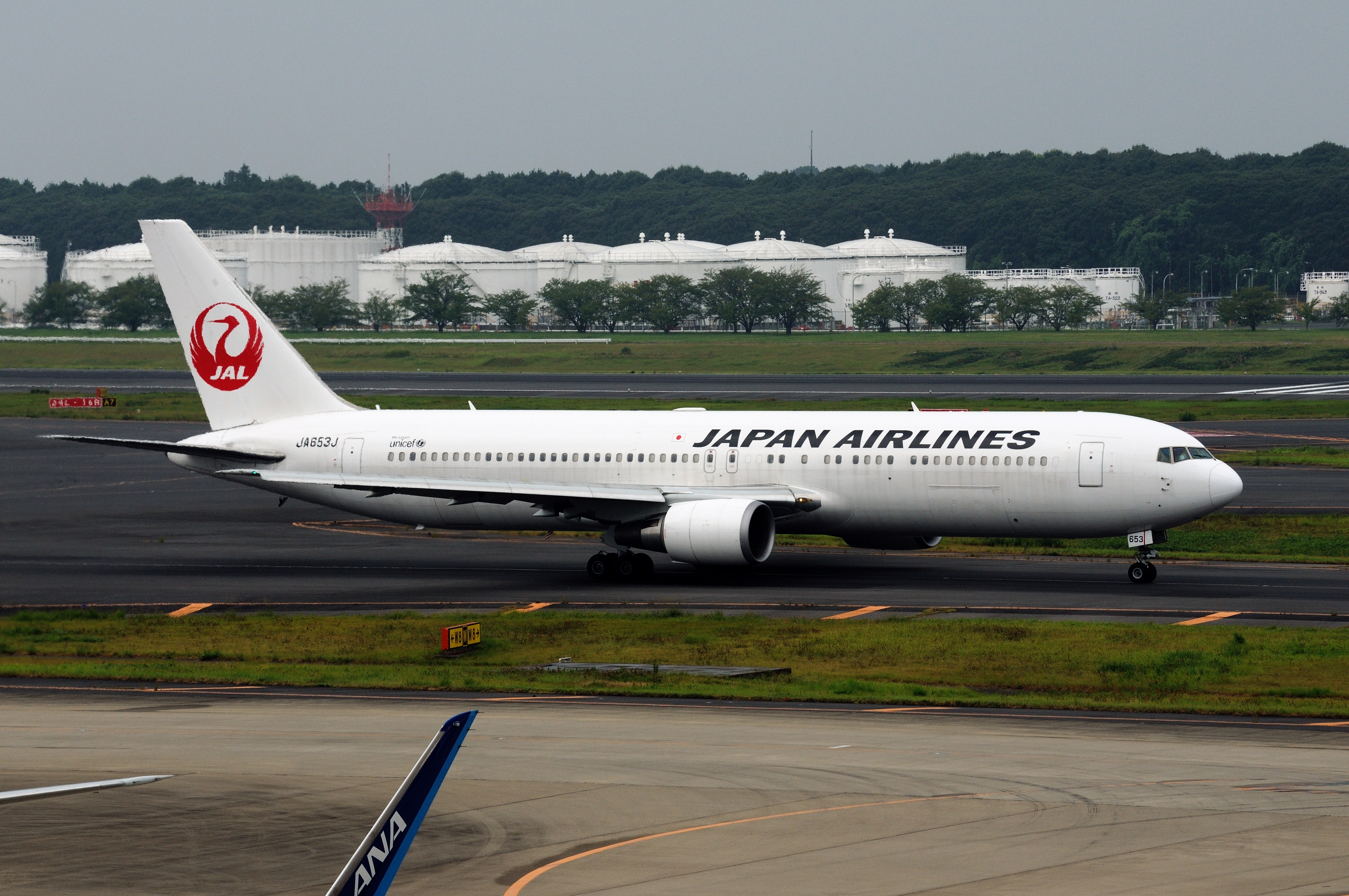 Japan Airlines Boeing 767-346/ER (JA653J/40365/997)